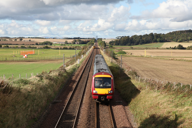 Class 158 (left) and Class 170 trains passing near Edinburgh Airport.